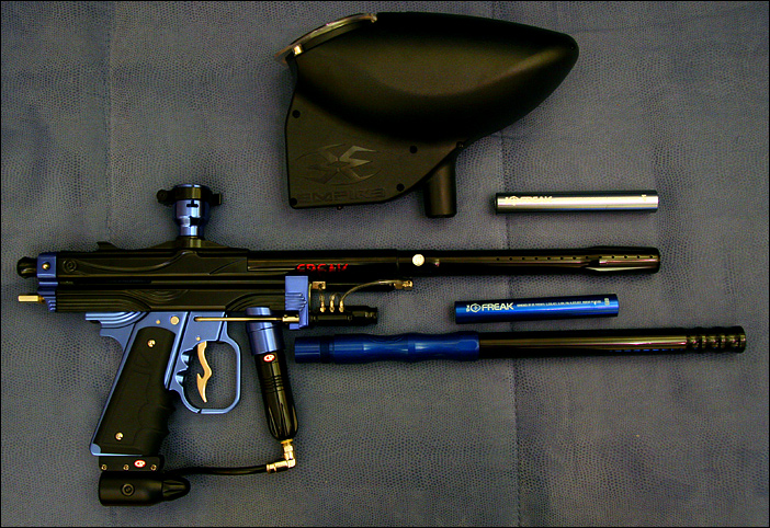 AIM Autococker paintball gun.